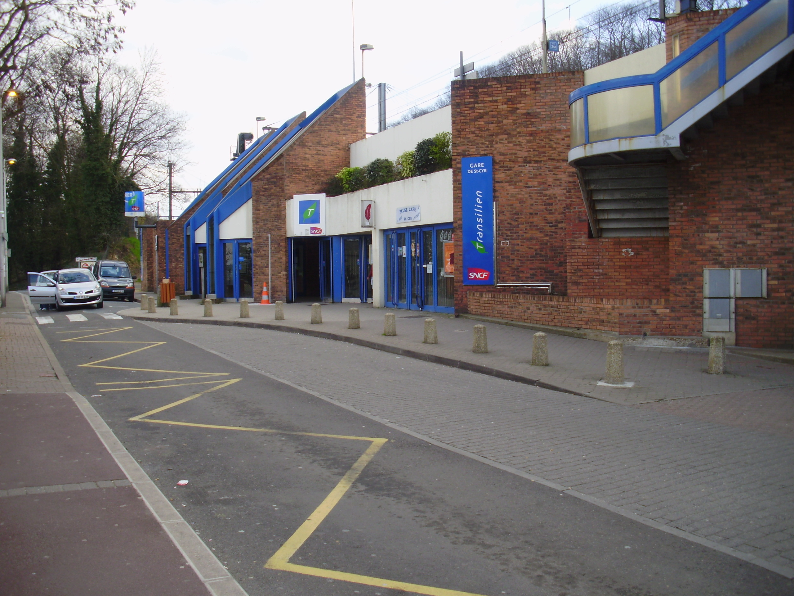 Saint-Cyr station - entrance, Yvelines, France